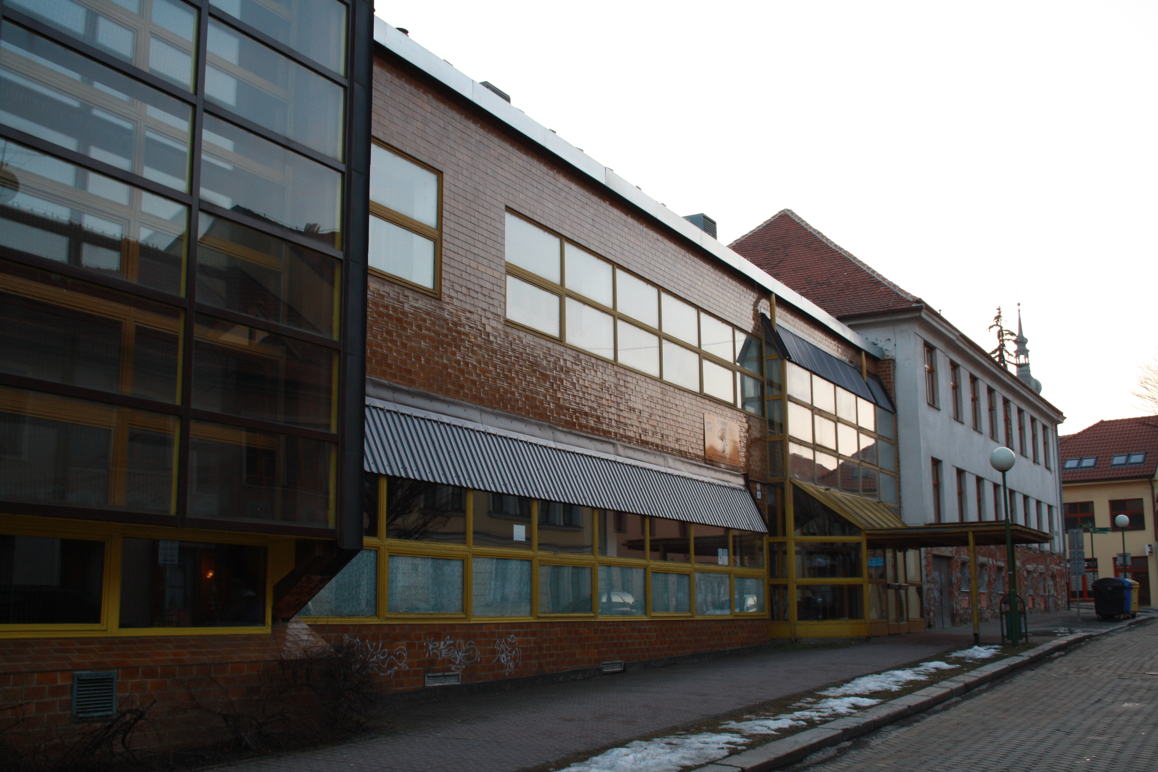 Exterior of economical academy gym in Třebíč.